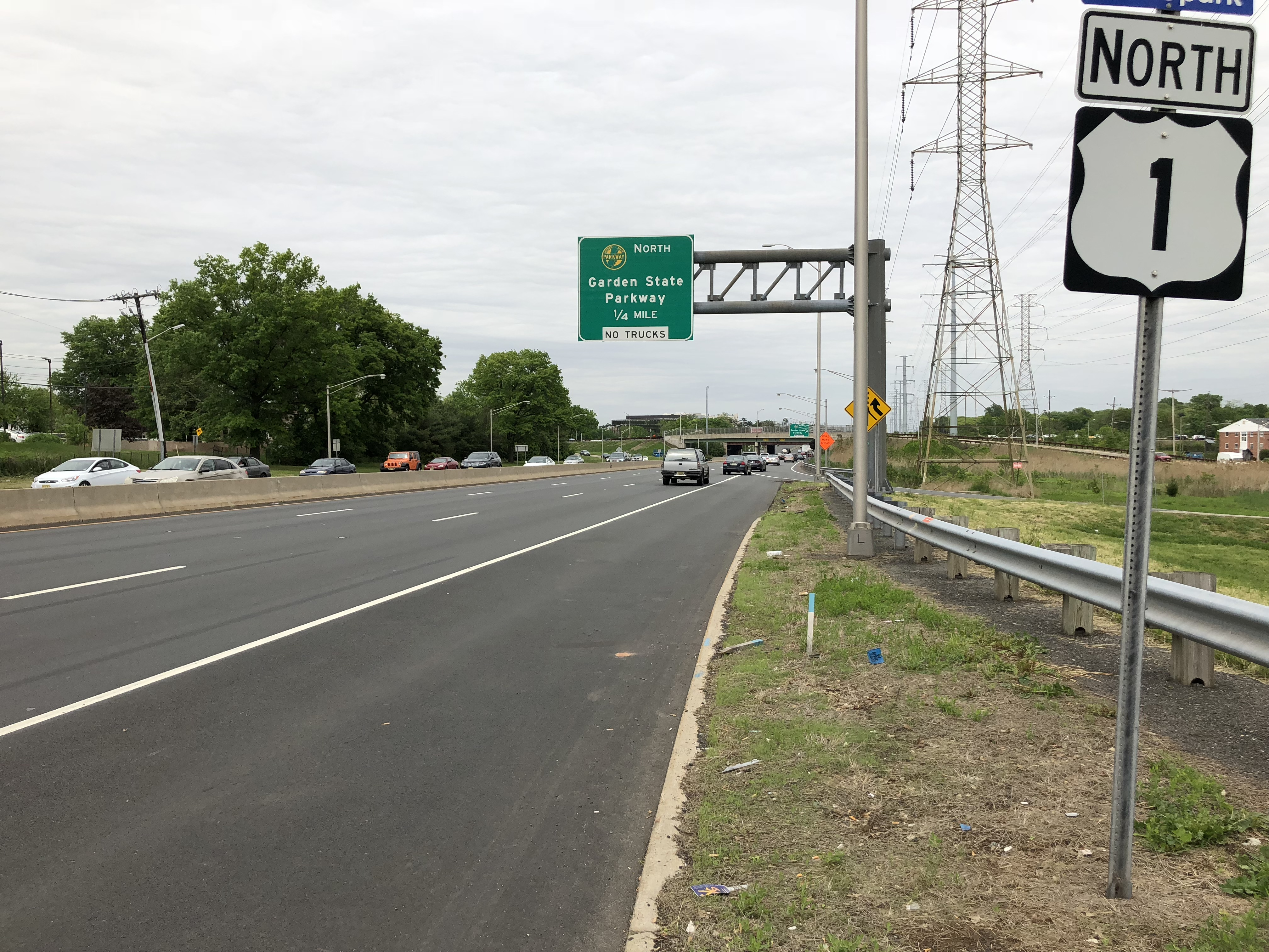 View north along U.S. Route 1 just south of the Garden State Parkway in Woodbridge Township, Middlesex County, New Jersey